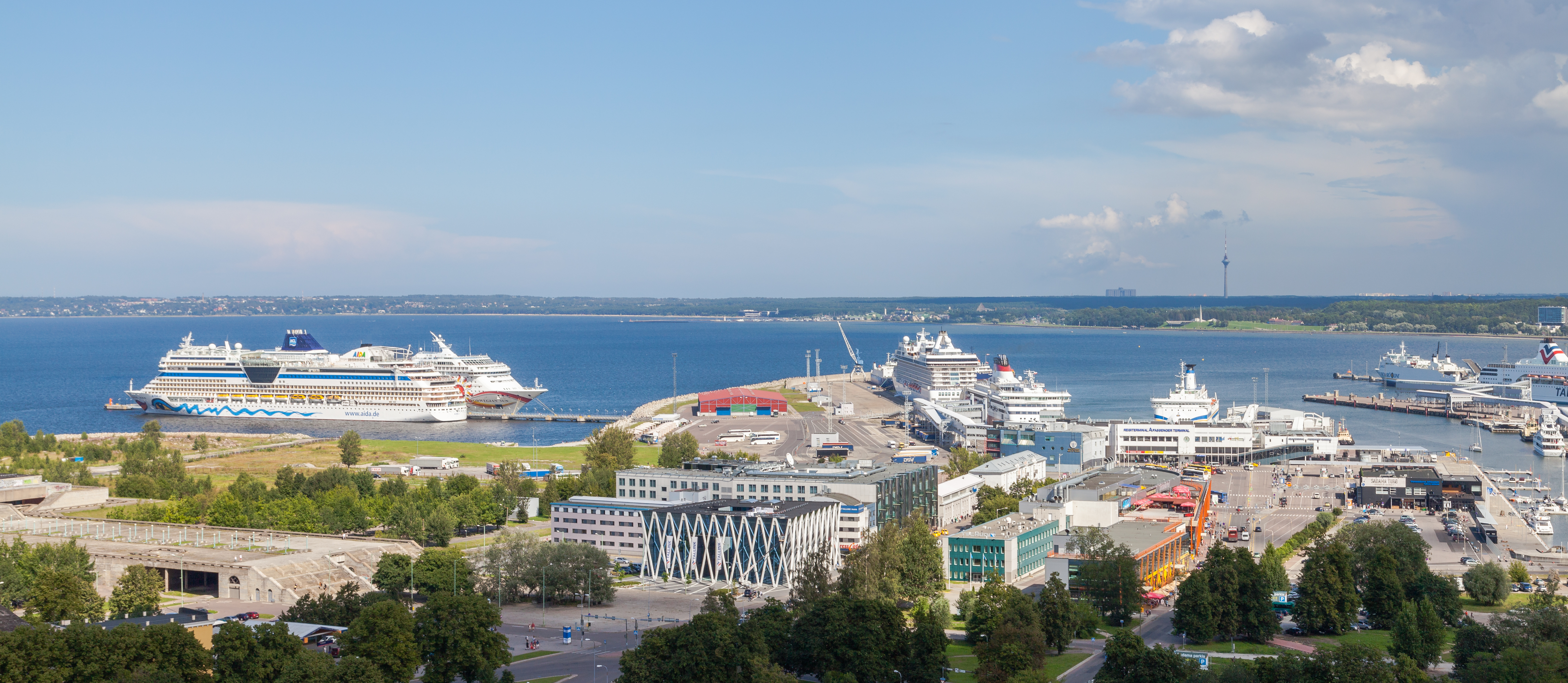 View of Tallinn from St. Olaf's church, Estonia